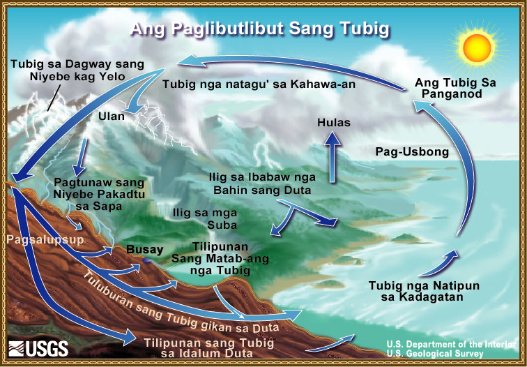 Water-Cycle Diagram (Hiligaynon) Hiligaynon: Ang Laragway Sang Pagbalikbalik Sang Tubig (Hiligaynon)